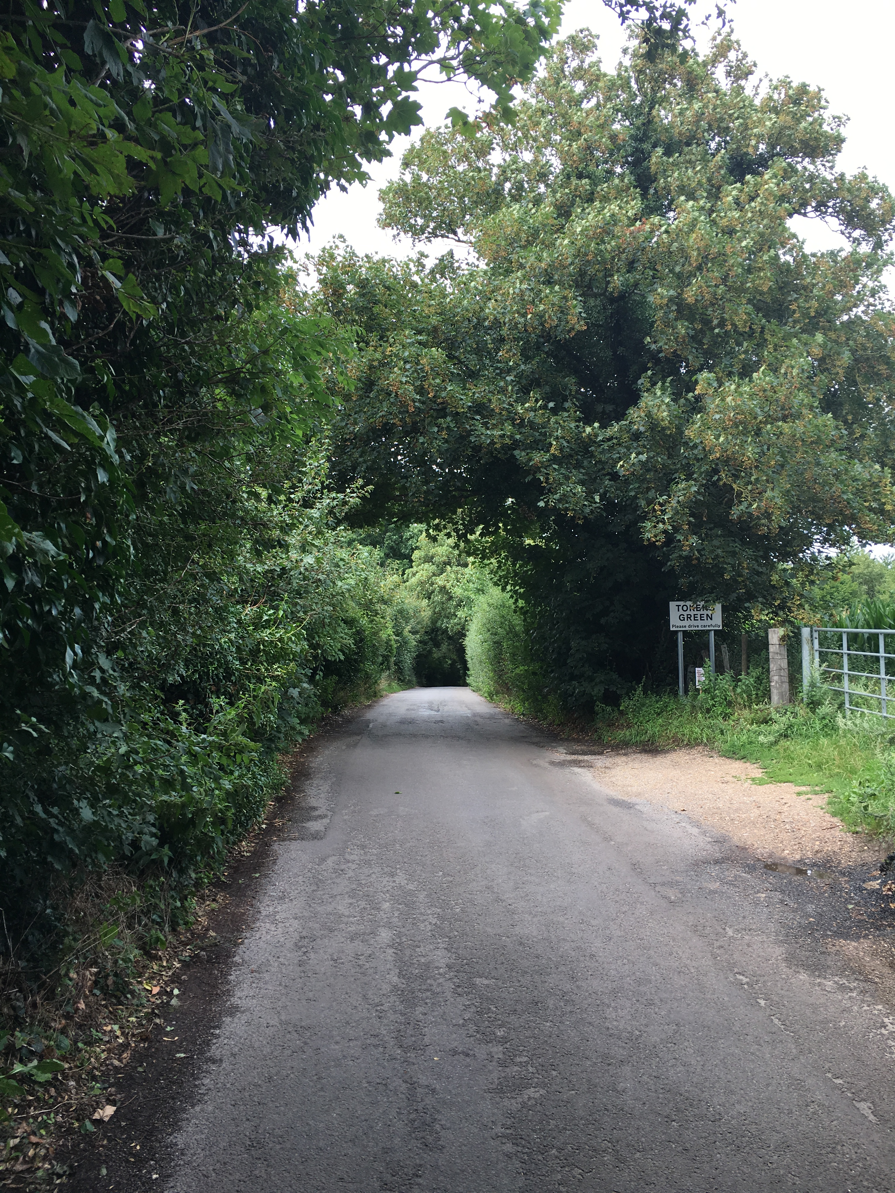 Tokers Green Lane and road sign